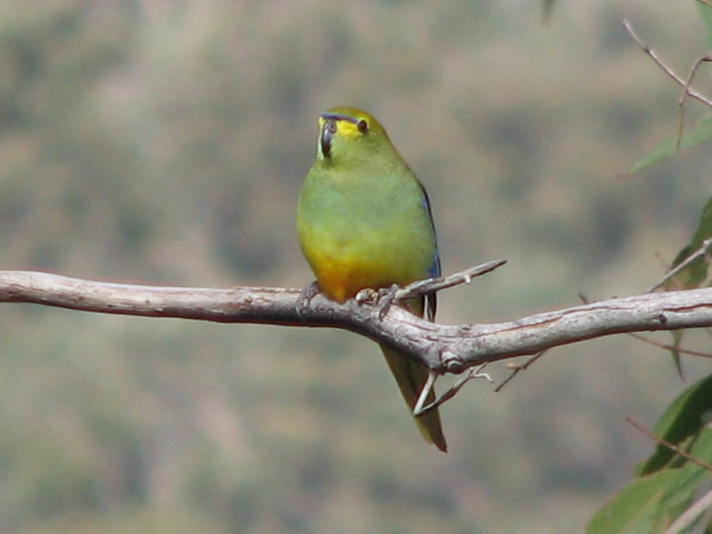 A Blue-winged Parrot at Anglesea Heath, Victoria, Australia.